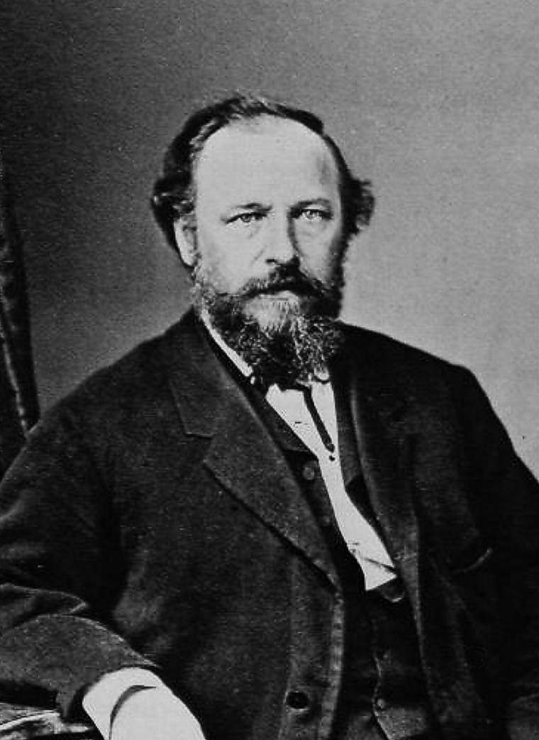 Photography of John B. Turchin (Ivan Vasilyevich Turchaninov, in russian language)